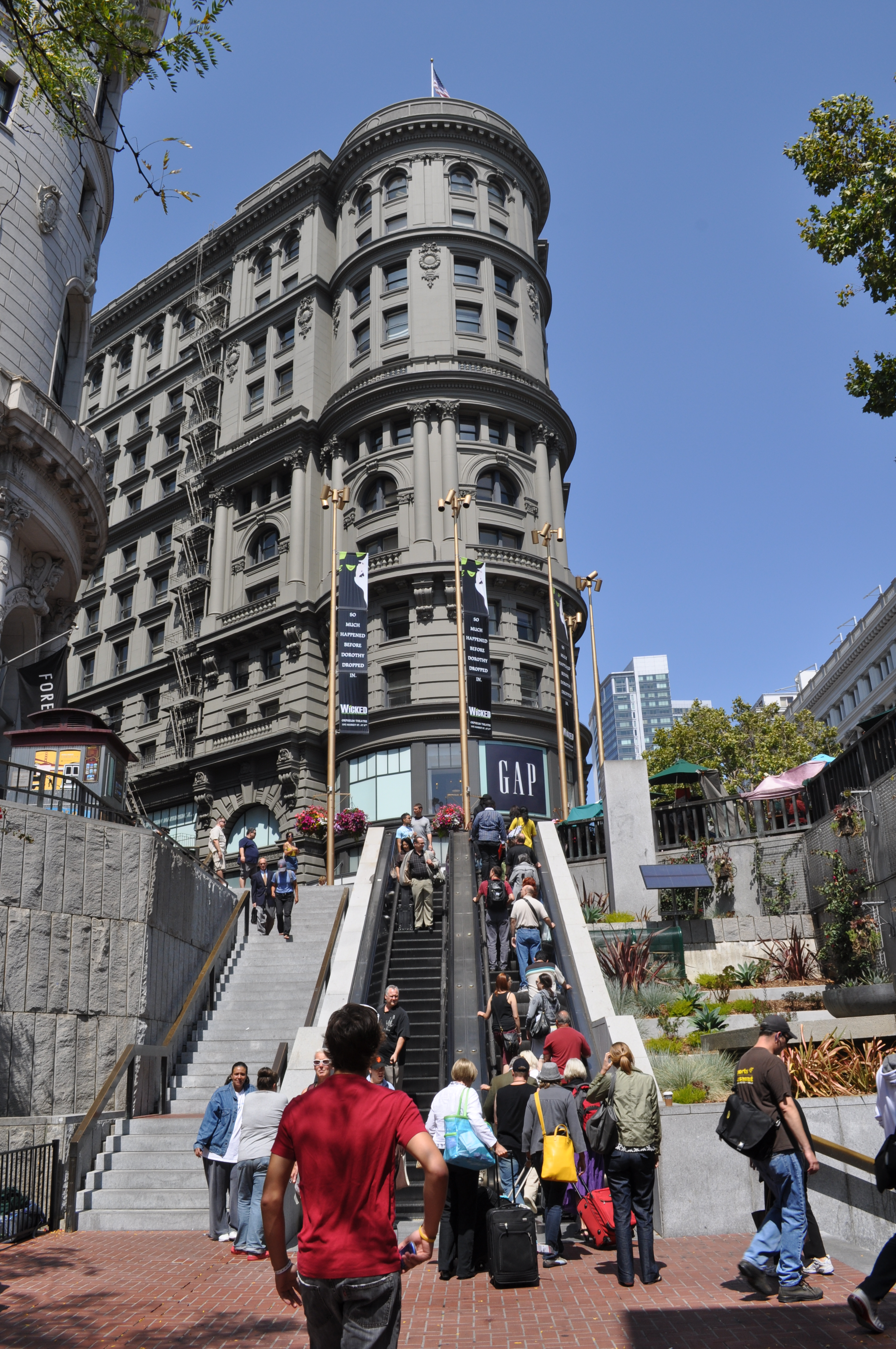 Flood Building, Market Street, San Francisco, California, seen from Hallidie Plaza.